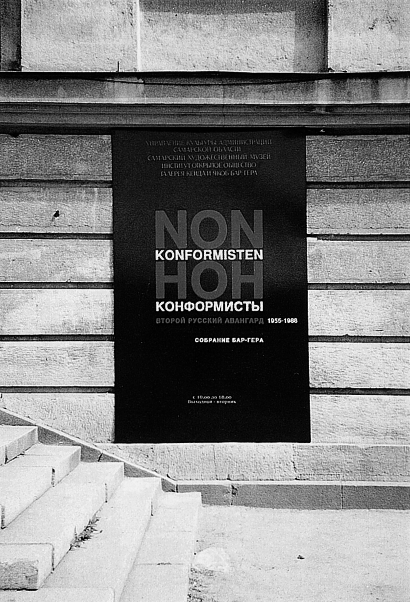 The Bar-Gera collection of persecuted art and the second Russian Avantgarde presented in Frankfurt am Main, Germany, in 1997.